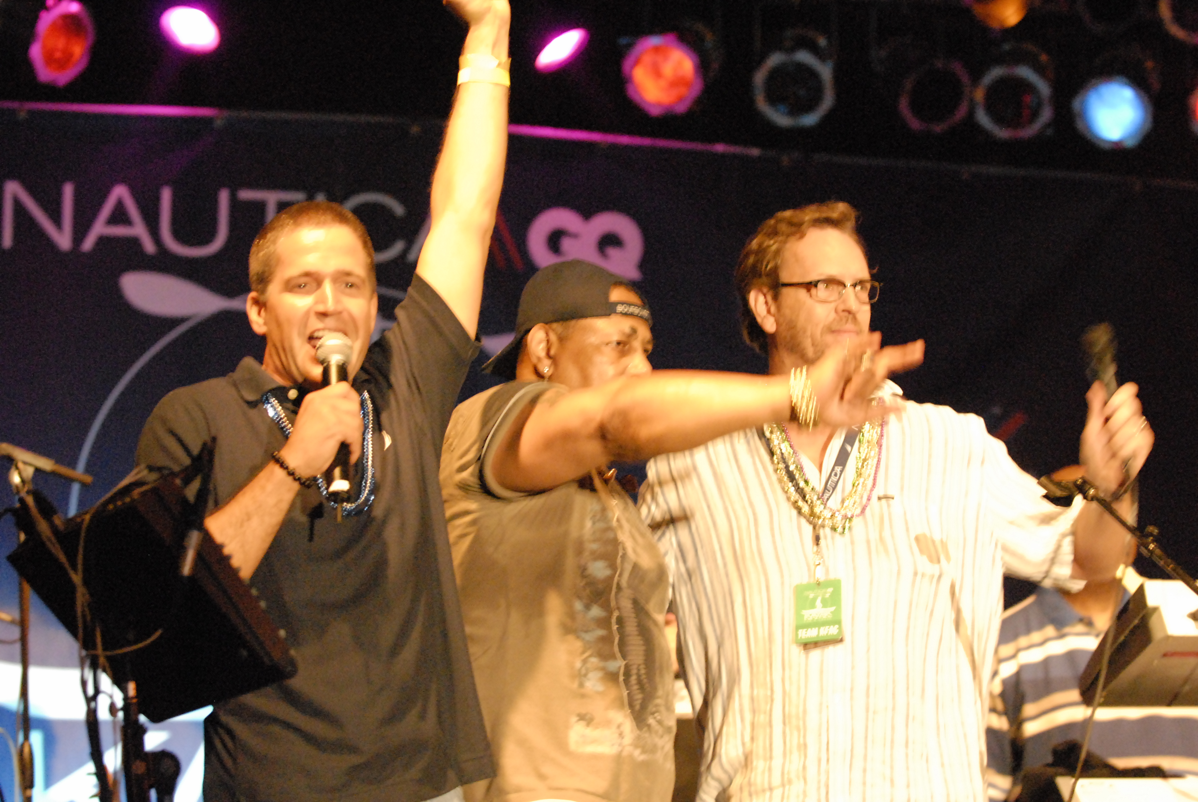 KFAC VII Stage with Miles Spencer, Aaron Neville and Scott Carlin